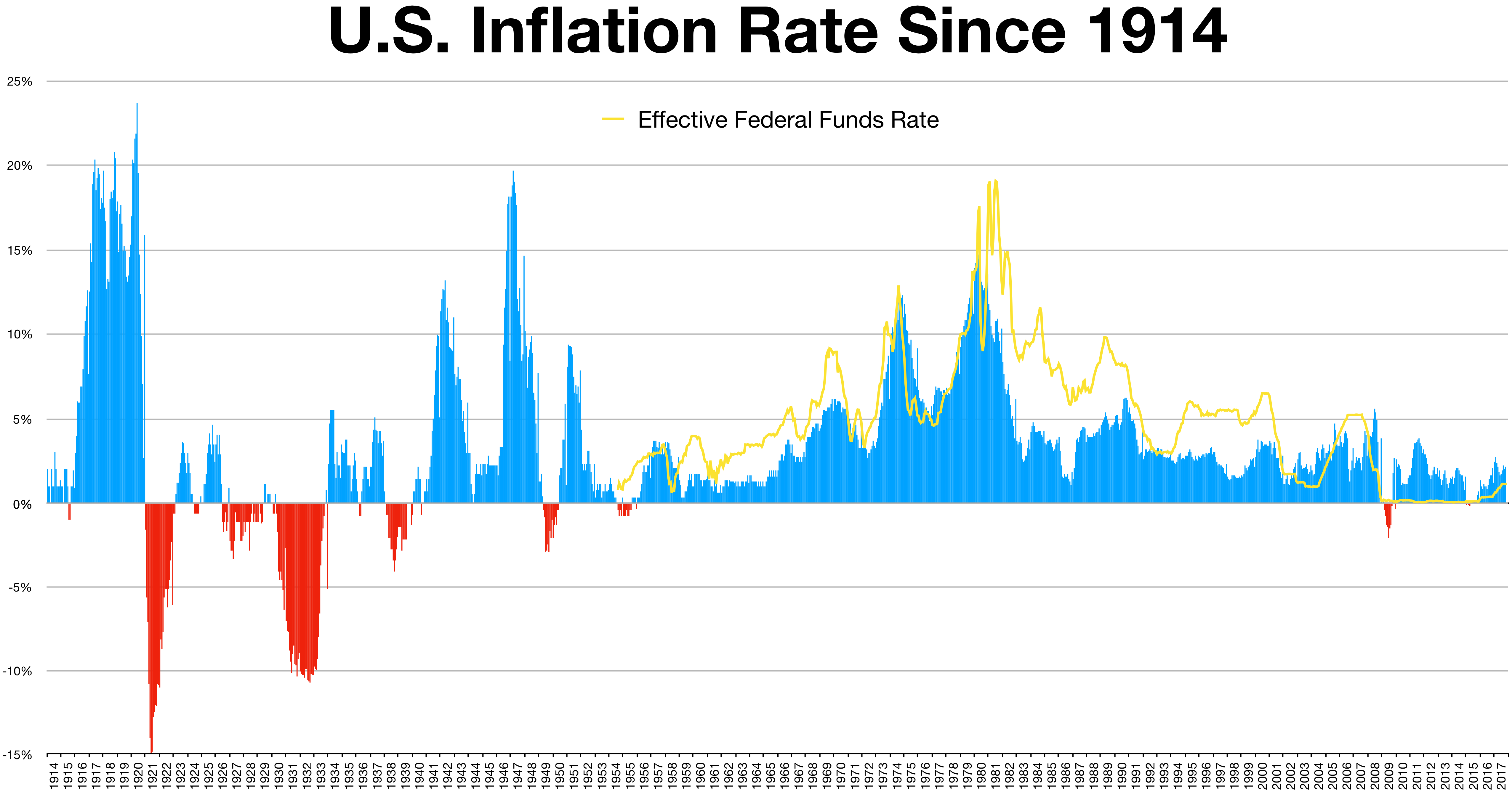 Federal Funds Rate compared to inflation